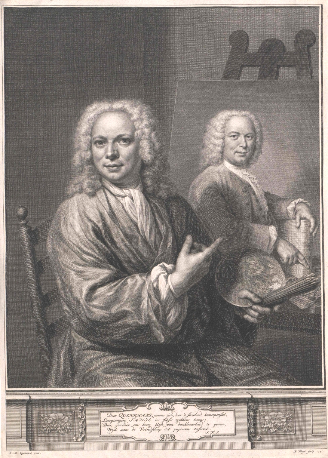 Jan Maurits Quinkhard (1688–1772)